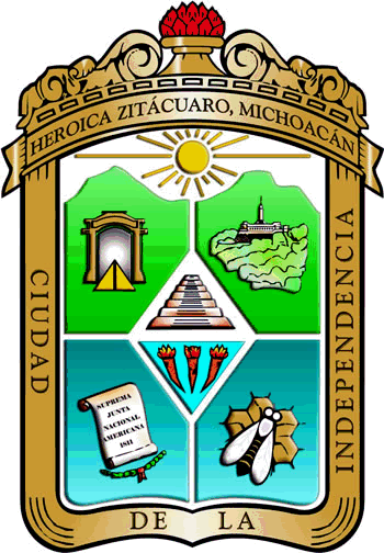 Escudo de Zitácuaro